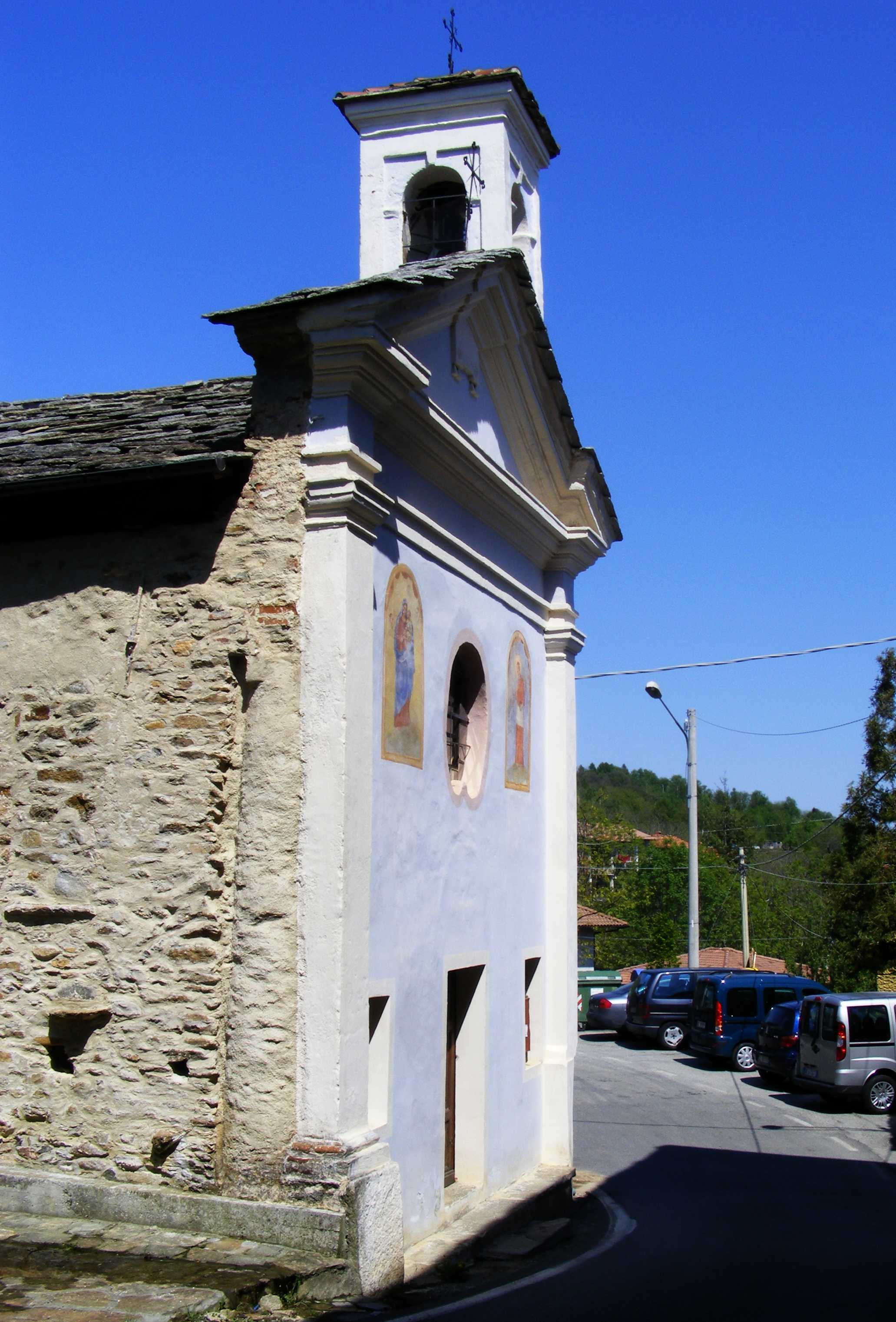 Borgiallo (TO, Italy): S.Carlo church